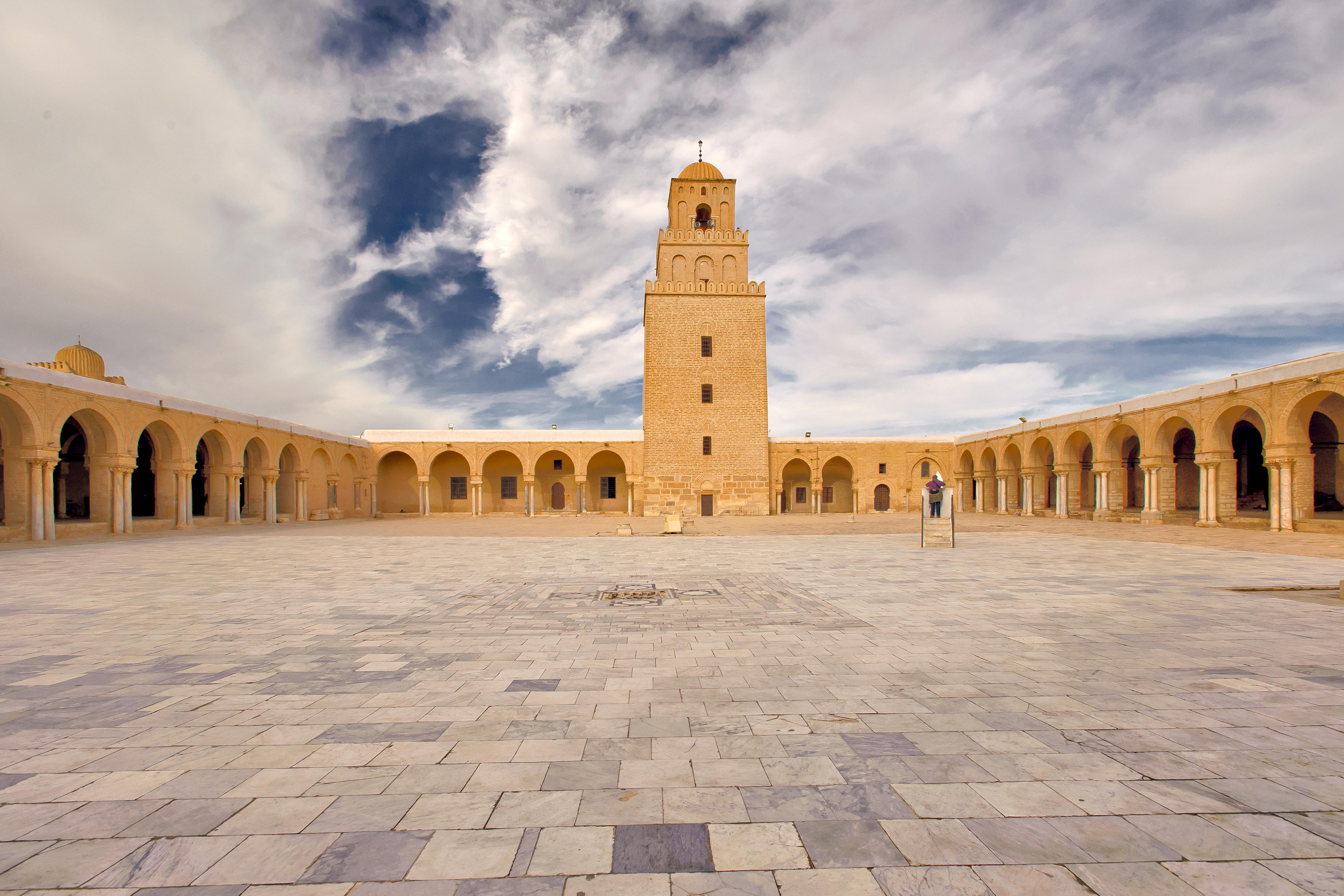 View of the courtyard of the Great Mosque of Kairouan (also called the Mosque of Uqba), in Tunisia.